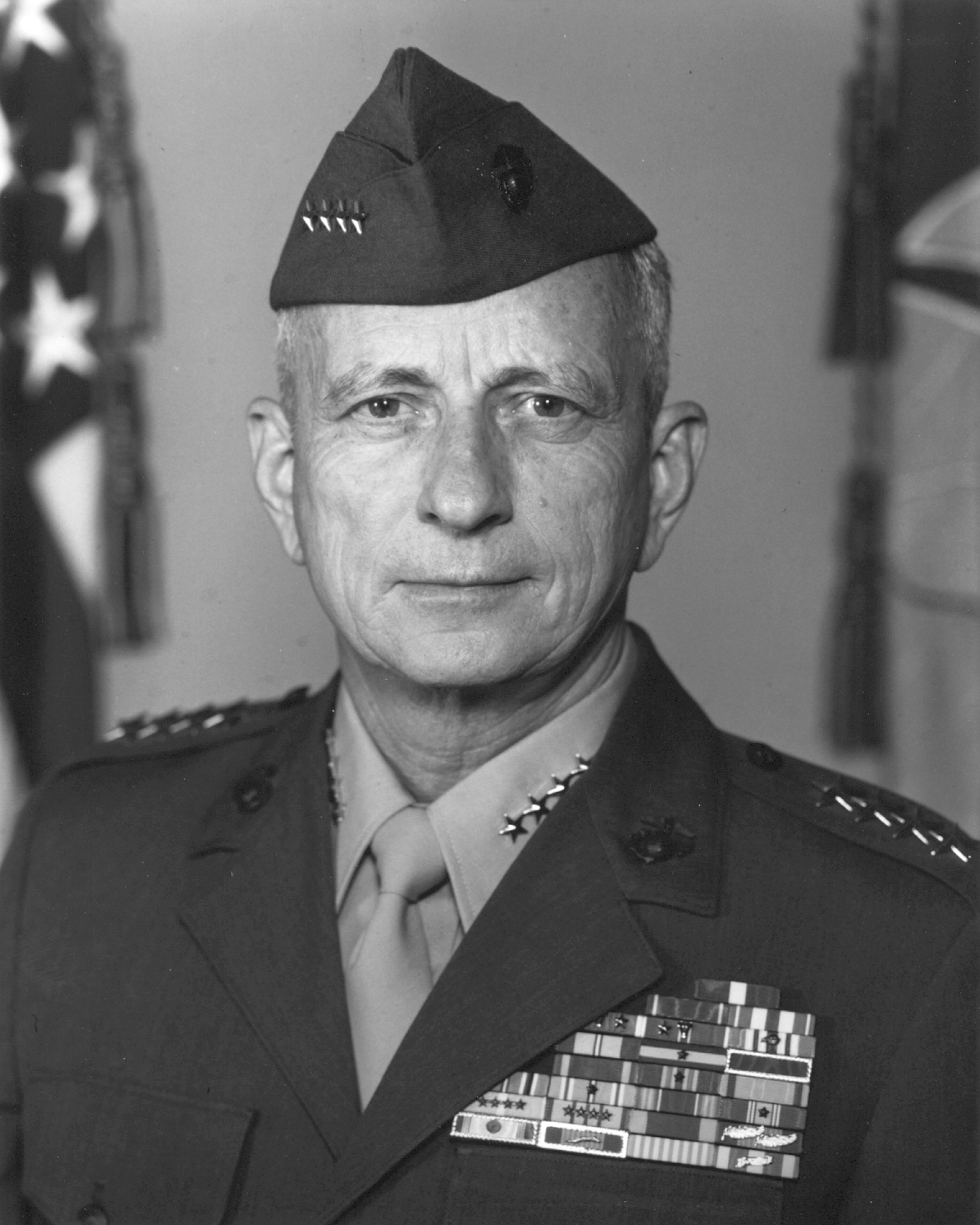 General Robert H. Barrow (1922-2008), 27th Commandant of the United States Marine Corps